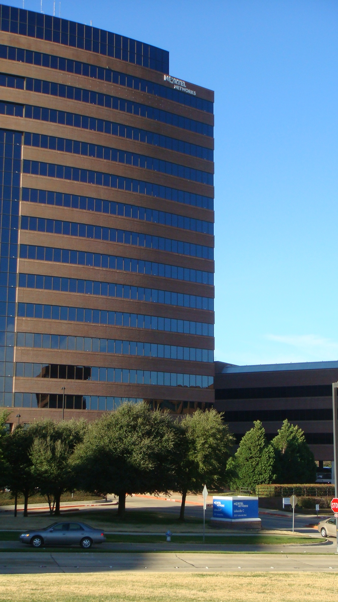 Richardson Texas Nortel Office